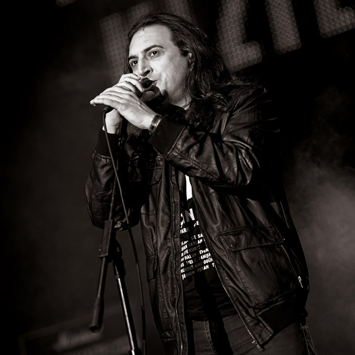 Ogün Sanlısoy Van için Rock